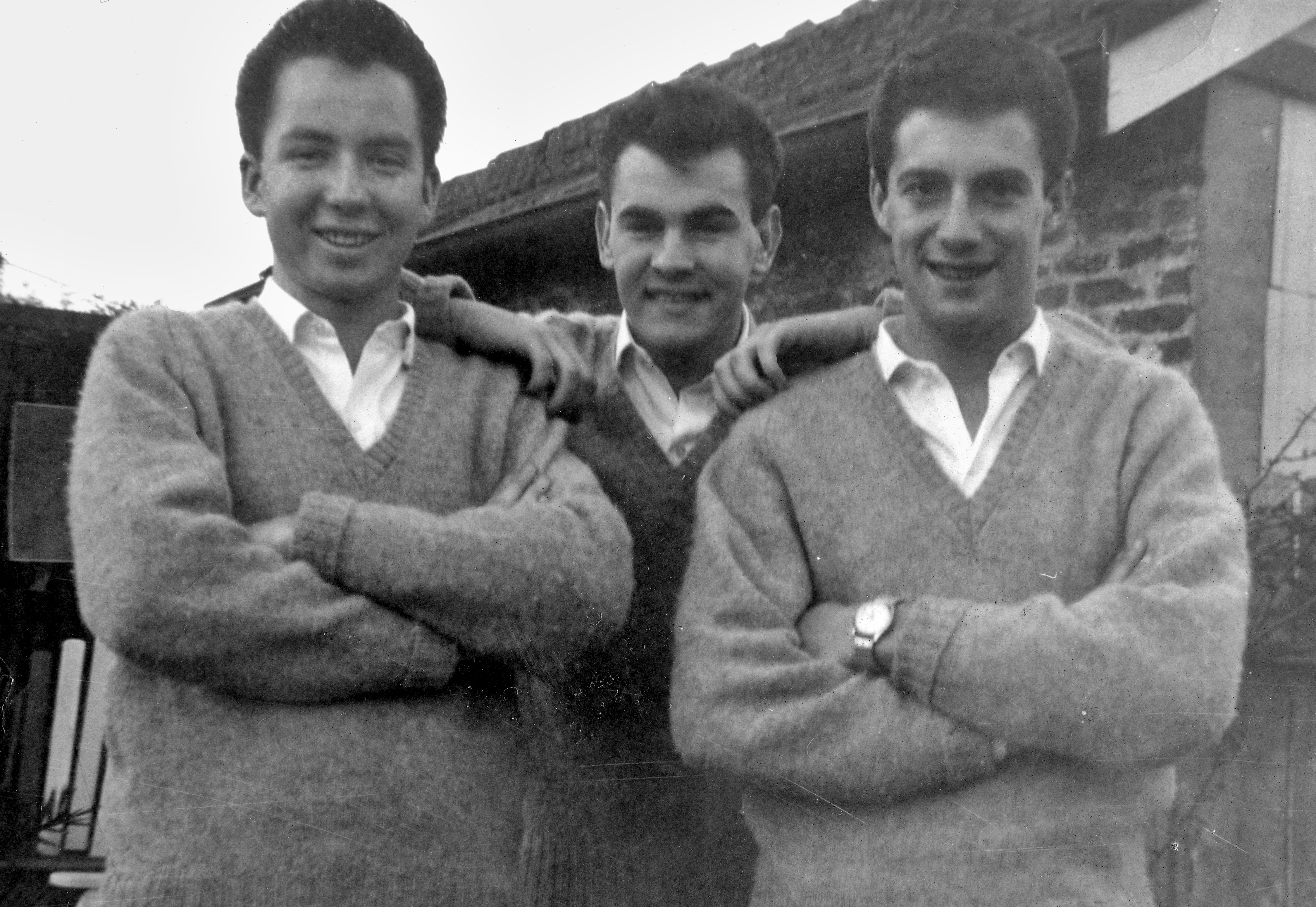 Australian vocal harmony group, The Crescents, in Tom Hart's back yard. c. 1960. l to r: Mike Downes, Col Loughnan, and Kel Palace (Kel Palise)